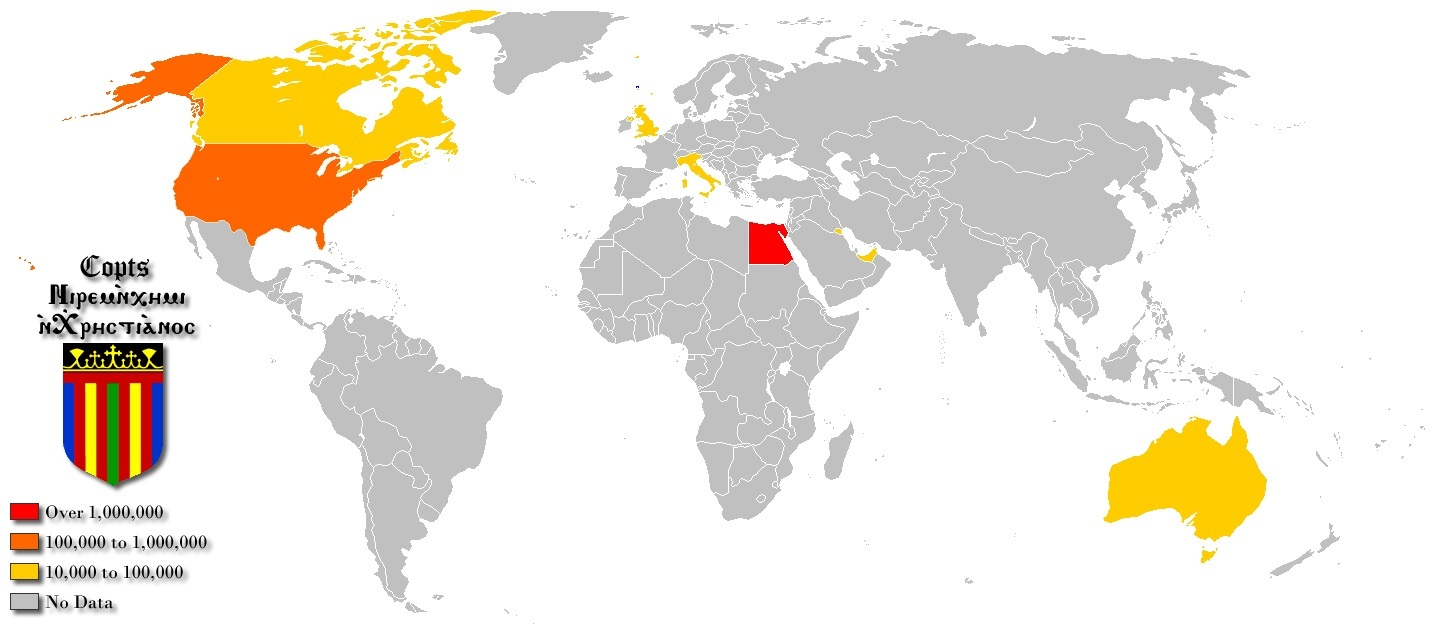 Copts around the world